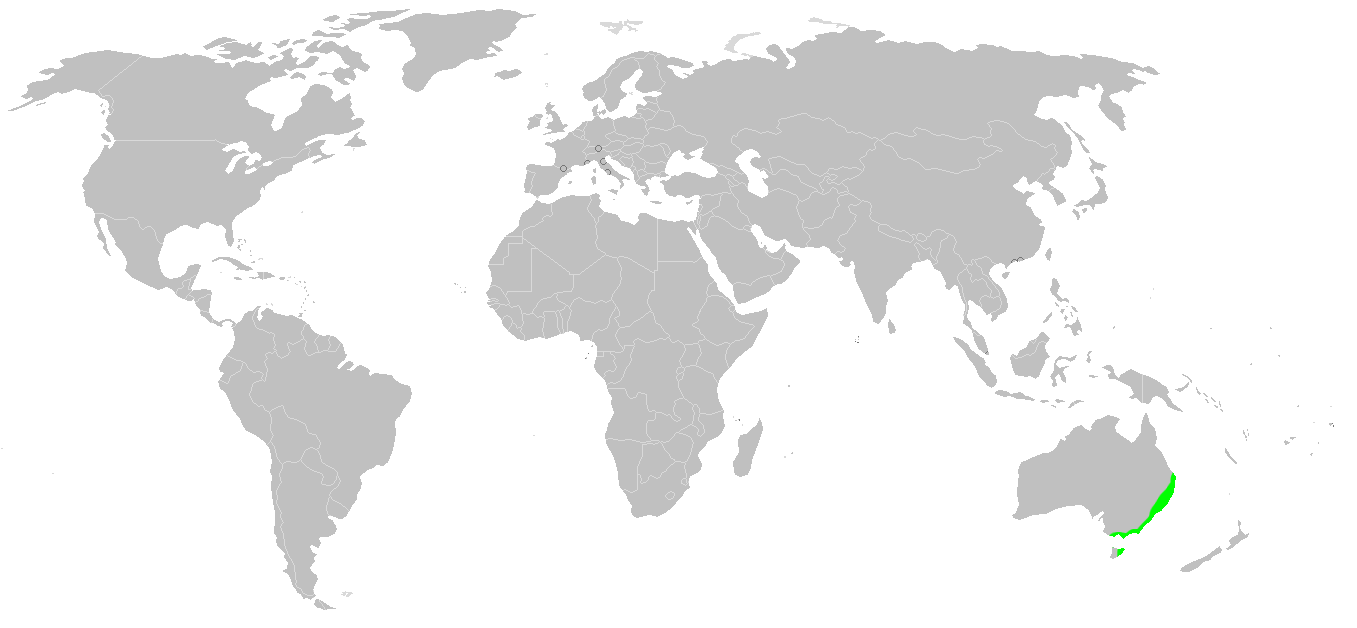 Known world distribution of Deinopis subrufa (Deinopidae); after data from M. Gray/Australian Museum.